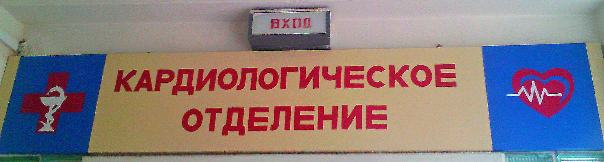 47, Lomonosova Street, Severodvinsk